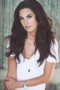 ElizabethChambersAnchor